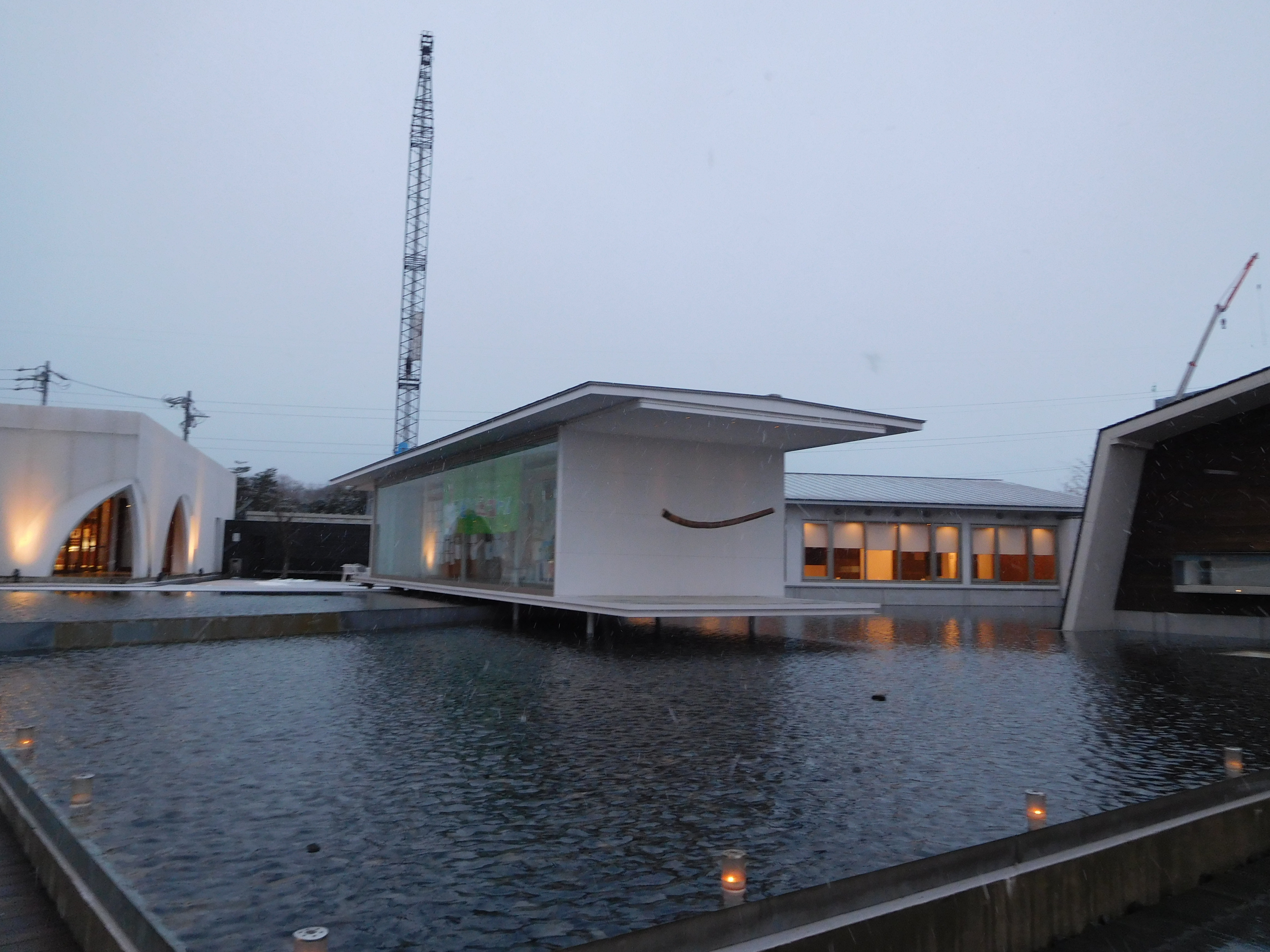 These are buildings of AQUAIGNIS in Komono, Mie, Japan.